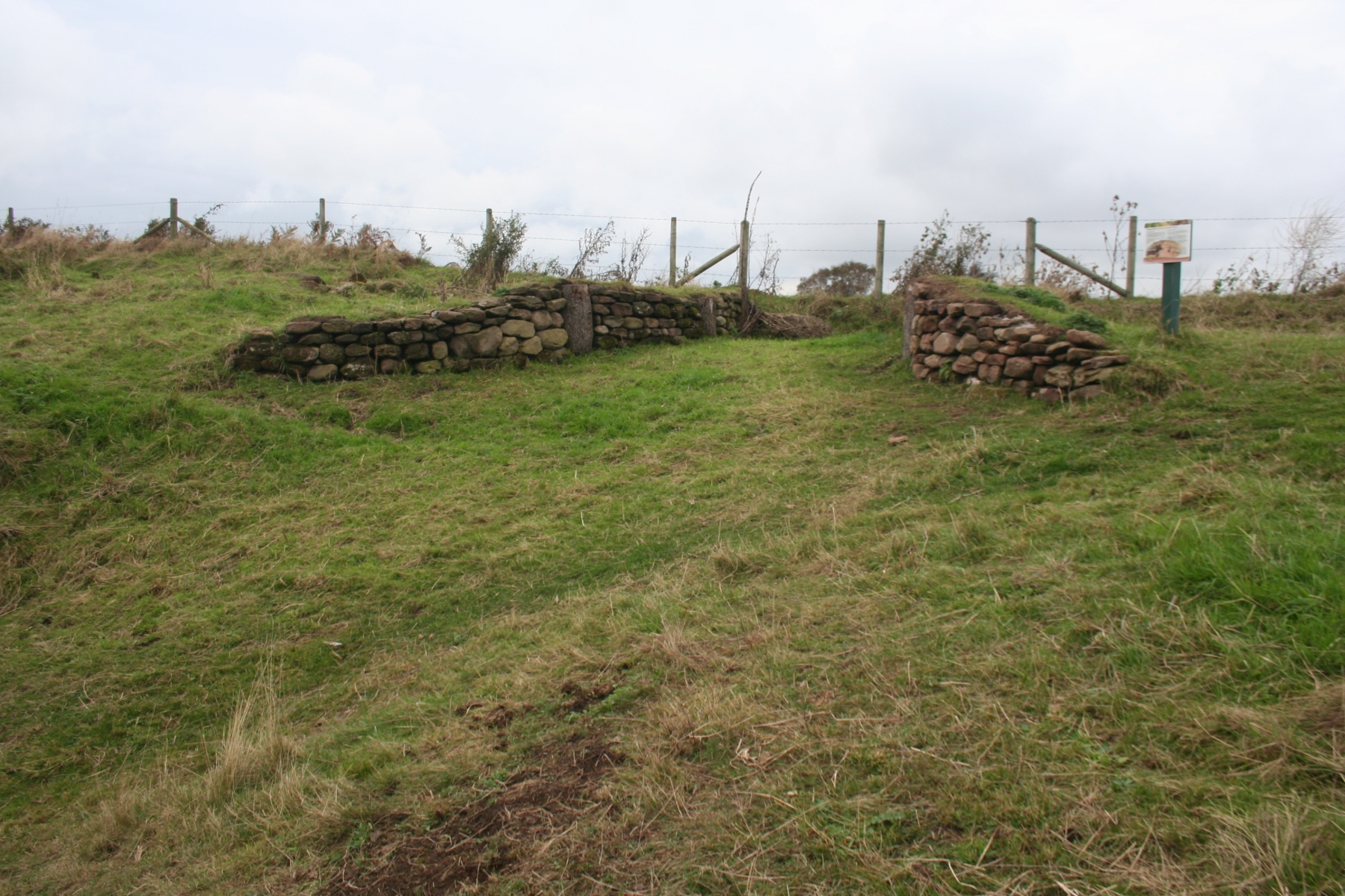 Atlas of Hillforts 3187 A reconstructed gateway at Eddisbury hillfort, Delamere, Cheshire, a Scheduled Monument.